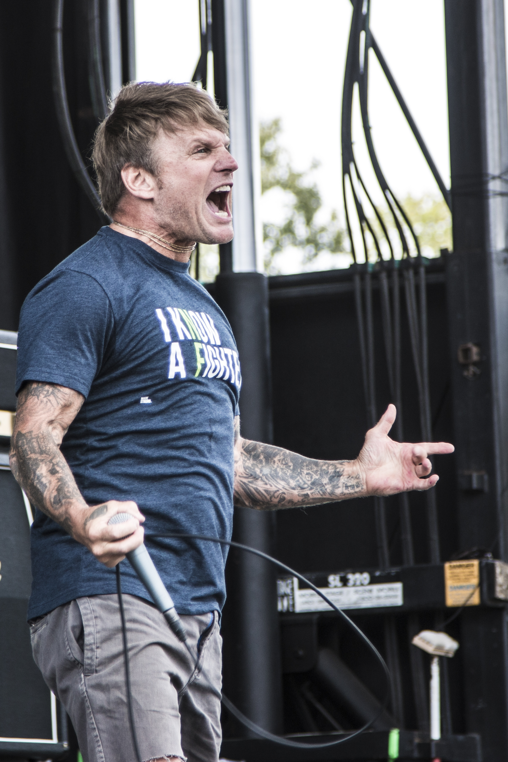 Cro-Mags perform at the 2015 Gwar B-Q music festival outside of Richmond, Virginia